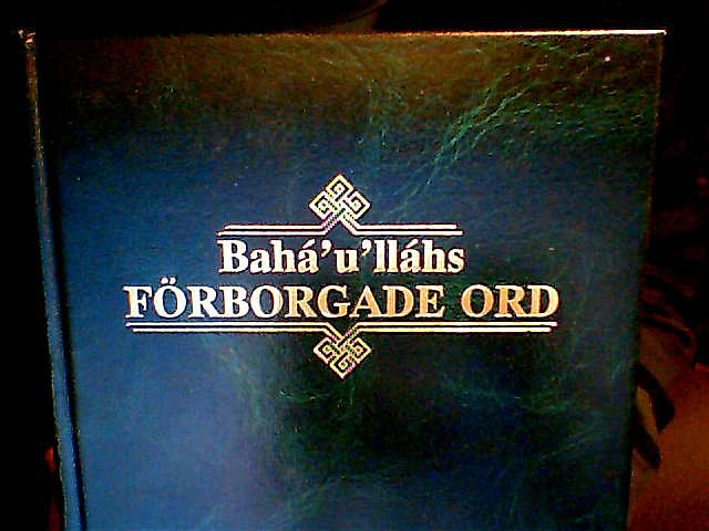 Cover of the book The Hidden Words, by Bahá'u'lláh